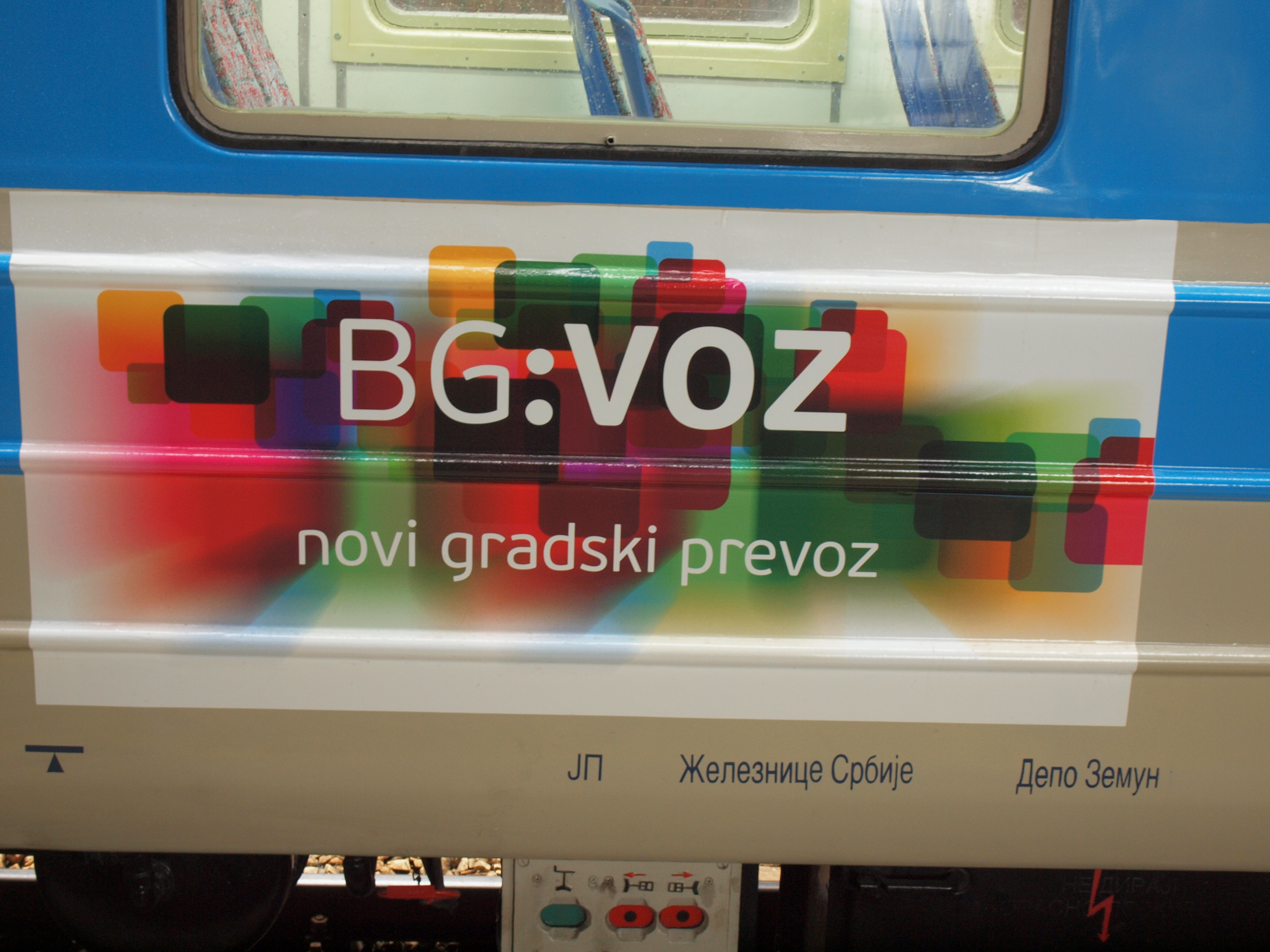 Bg:voz logo